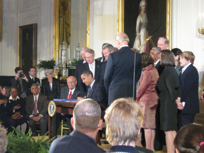 Dingell joins Obama in signing of the re-issuing of CHIP